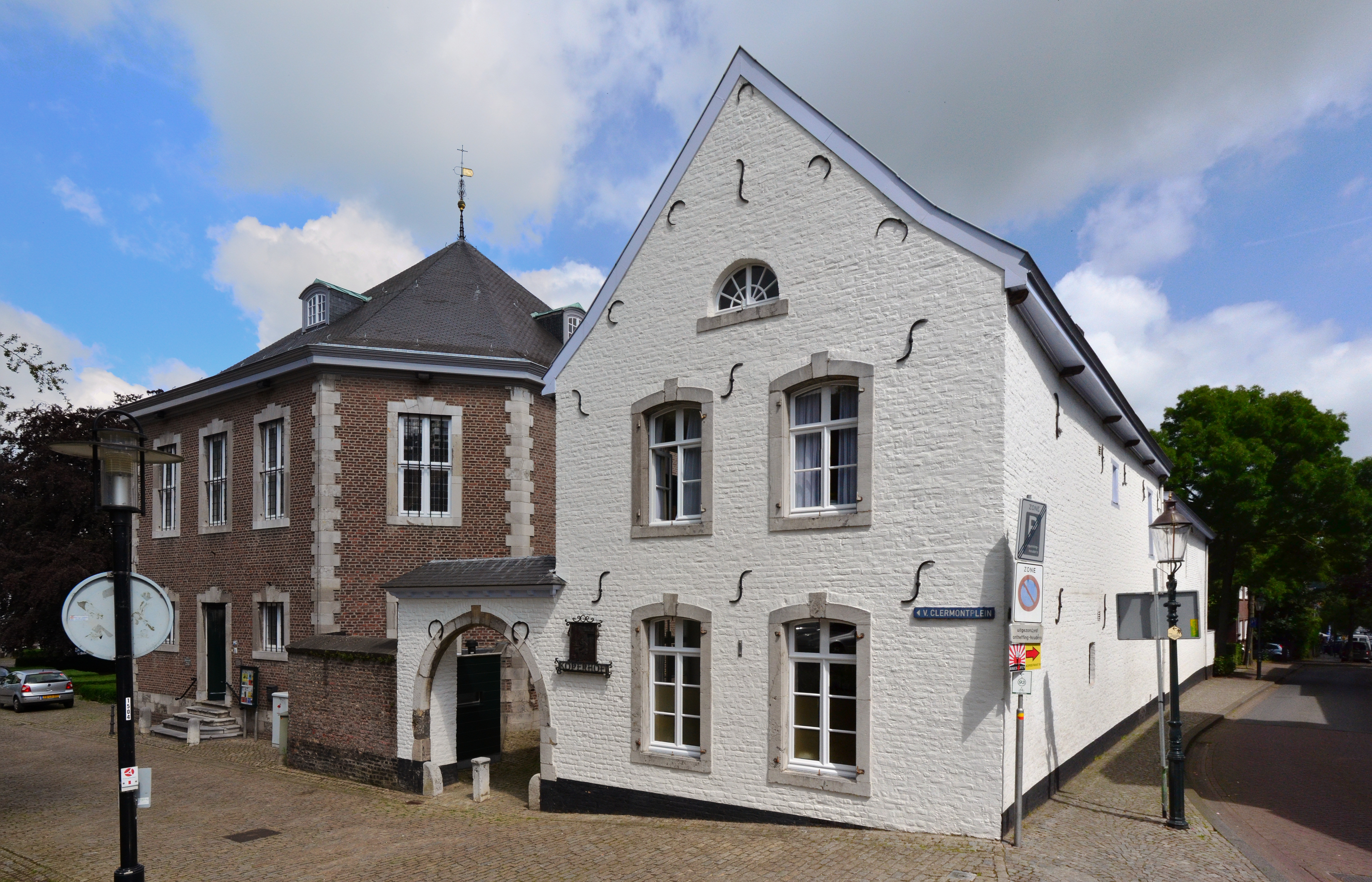 De Kopermolen This image was created with Hugin.